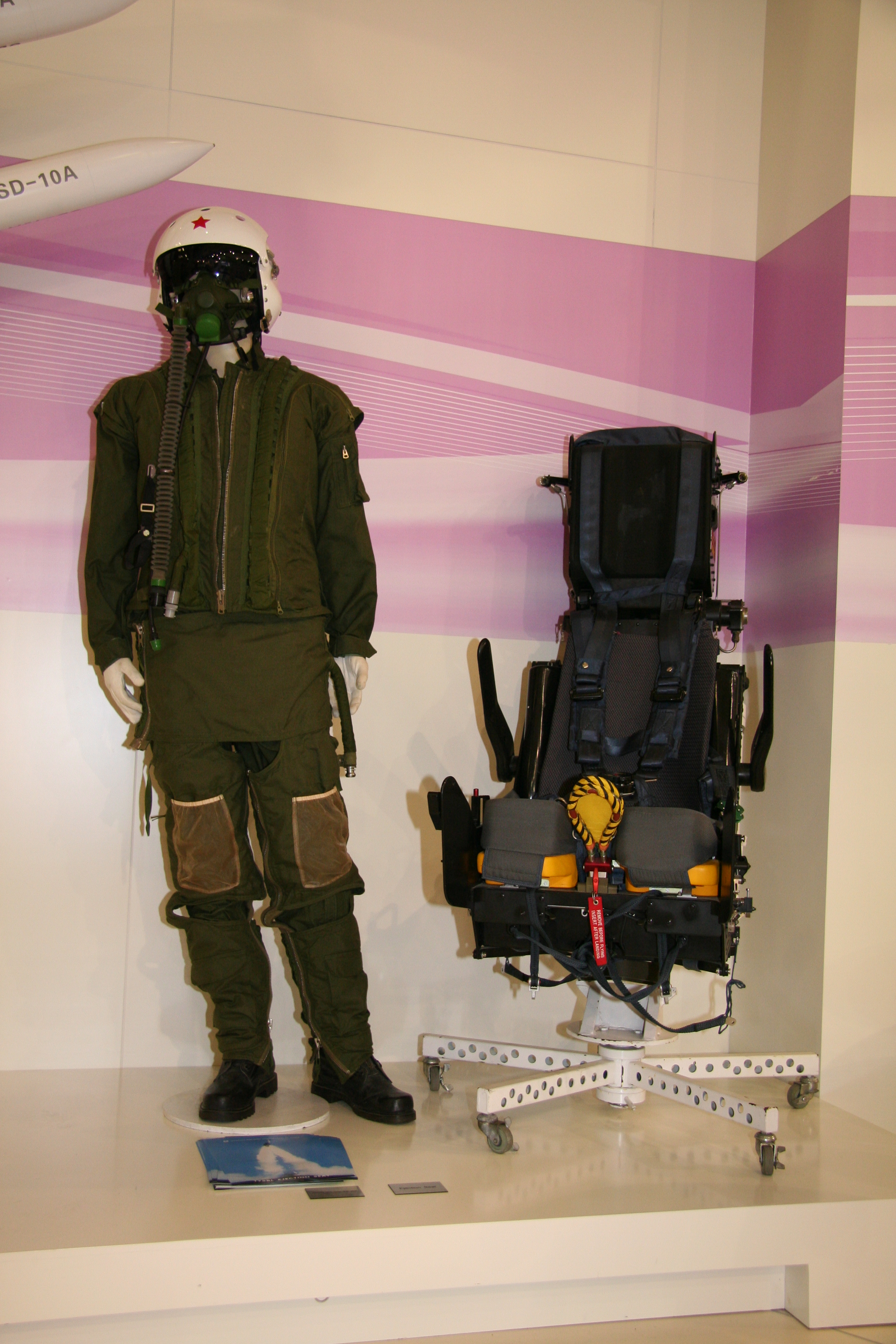 Ejector seat - Paris Air Show 2009